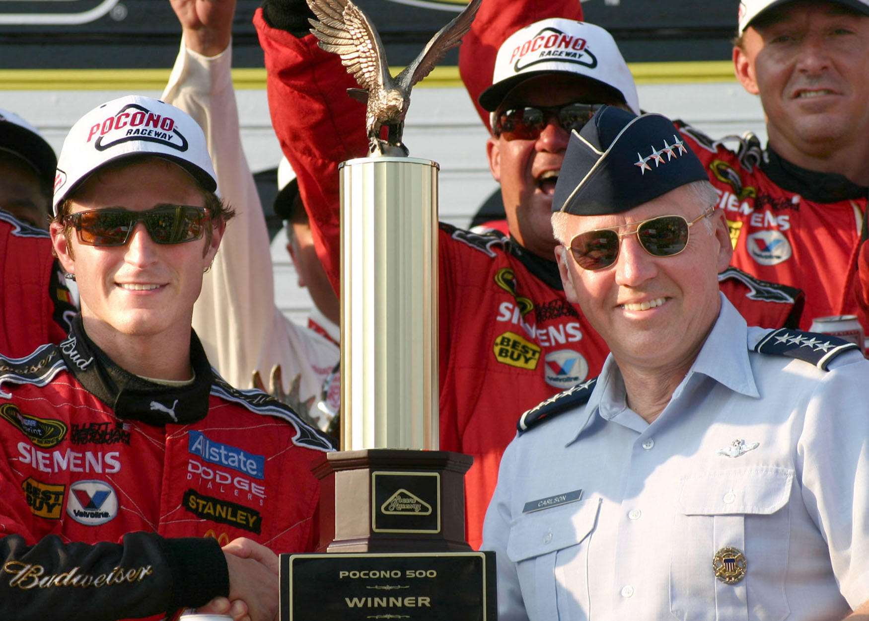 Kasey Kahne, winner of the 2008 Pocono 500, receives his trophy and is congratulated by Gen. Bruce Carlson, commander of Air Force Materiel Command.